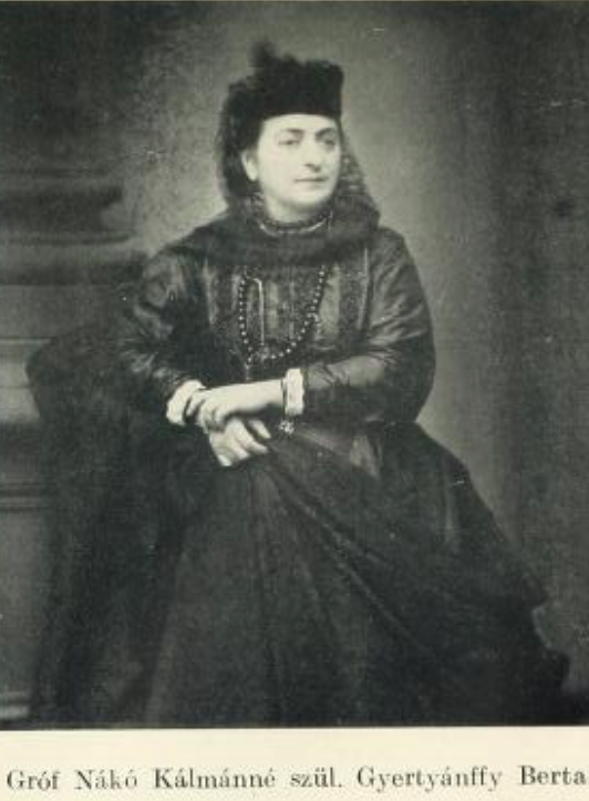 Portrait of Nákó Kálmánné Gyertyánffy Berta